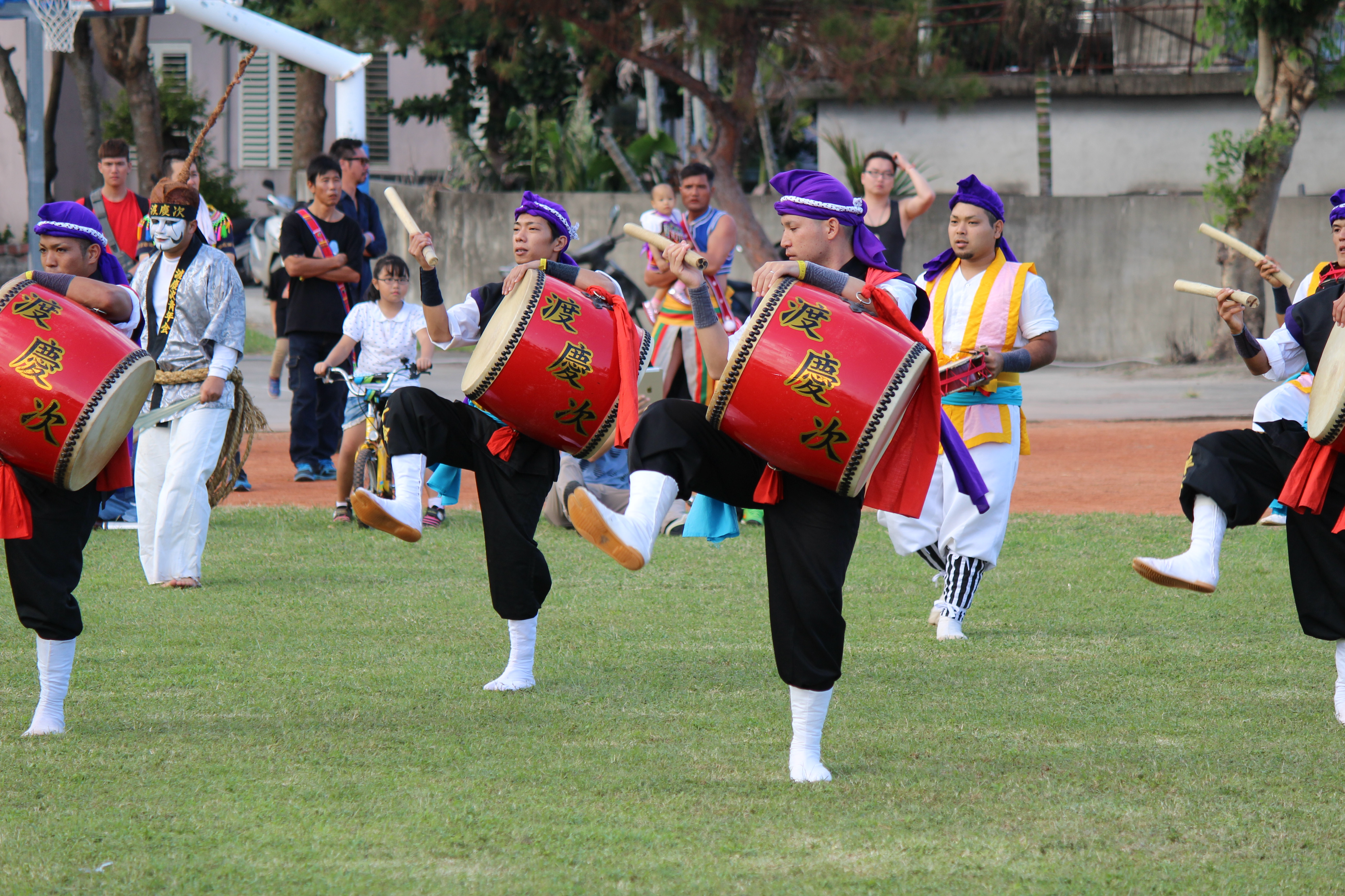 Members of the Tokeshi Youth Association (渡慶次青年會) from Yomitan-son (讀谷村) of Okinawa (沖繩), Japan performing a traditional Eisa dance at the 2016 Amis Music Festival (阿米斯音樂節) in Dulan Village (都蘭), Taitung County, Taiwan. [1] This photo has been taken in the country: Taiwan